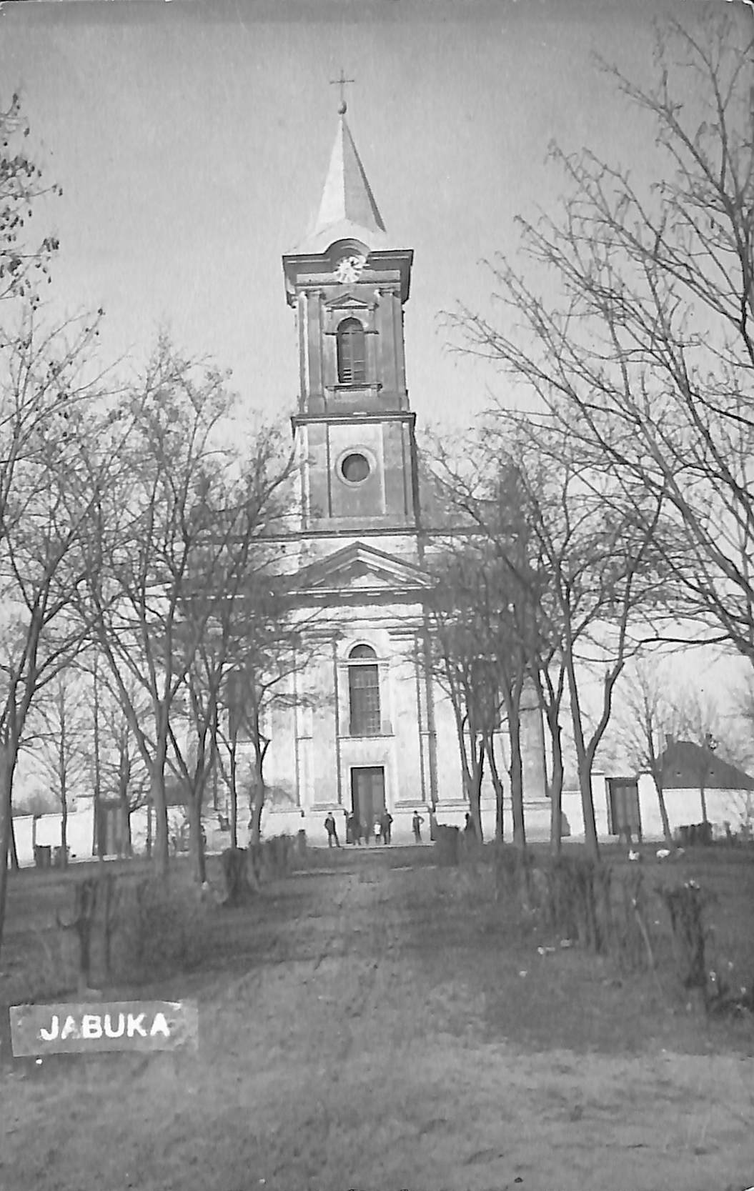 The village of Jabuka in Banat